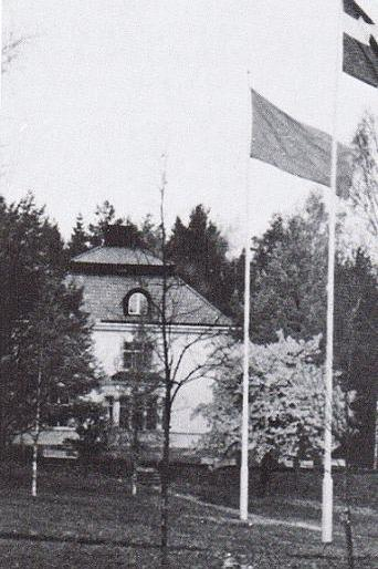 SSU banner and swedeish flagg